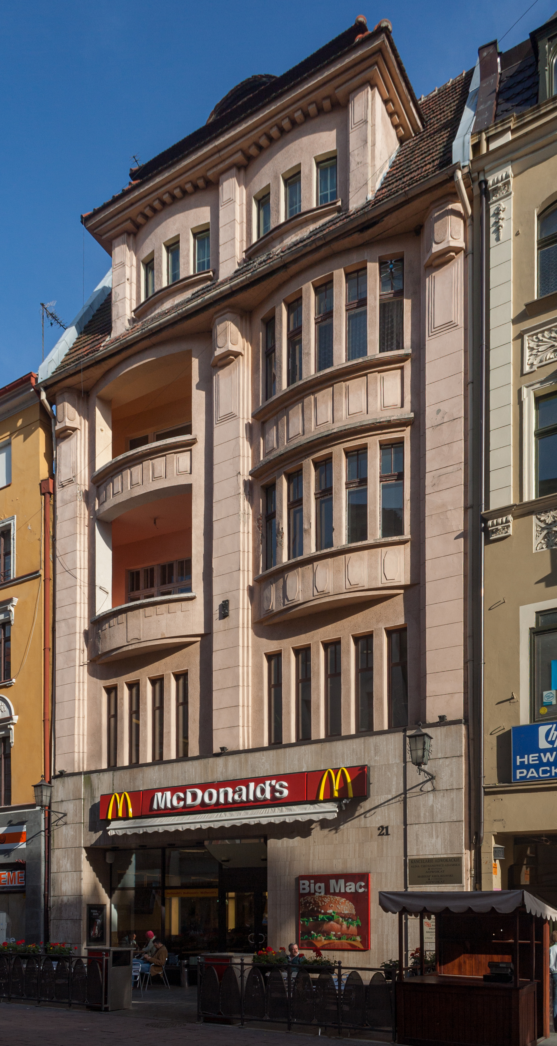 House from early 20th century at 21 Seroka Street in Toruń.